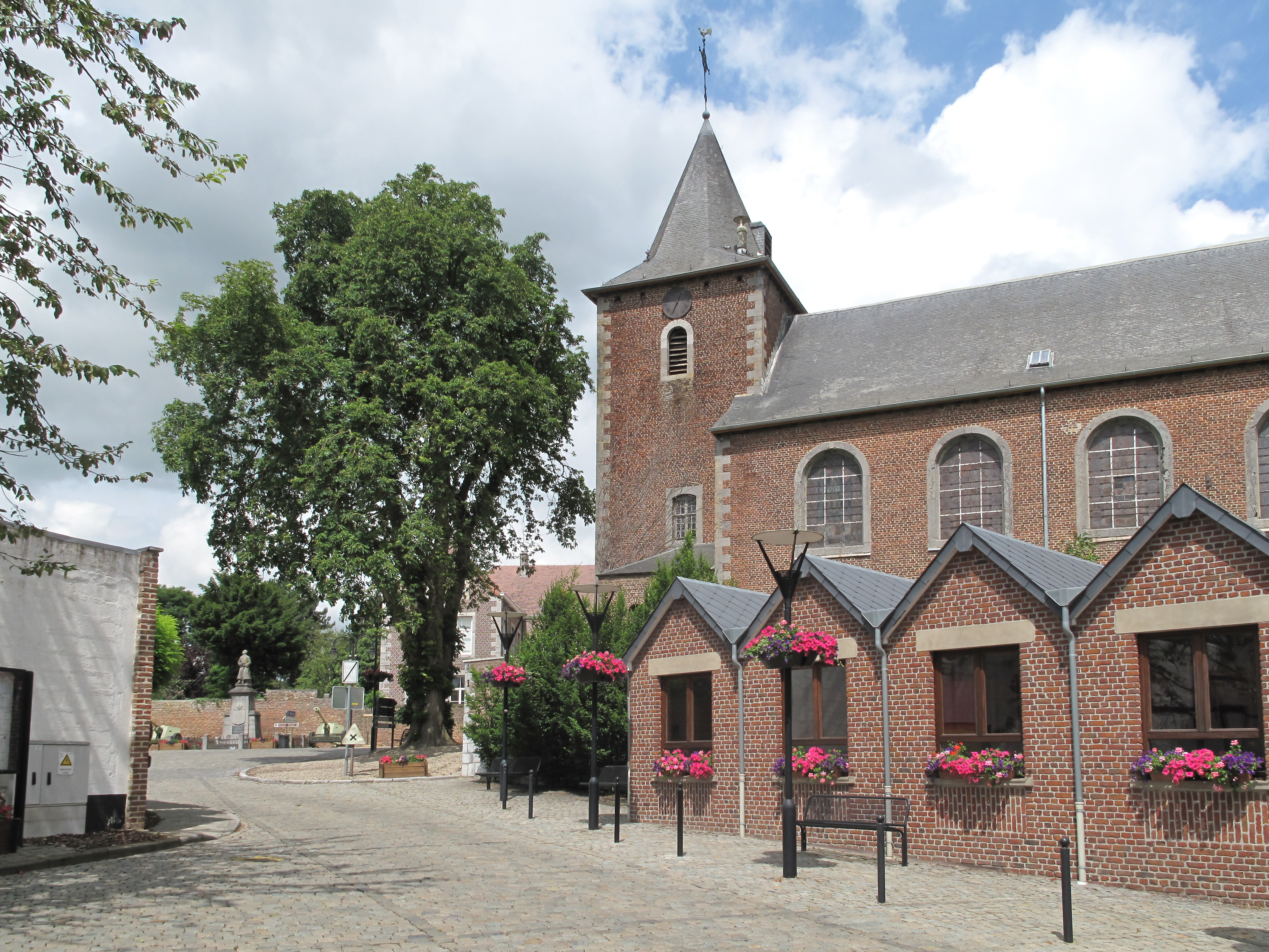 Burdinne, church: église de la Nativité de la Sainte-Vierge le clocher et la nef oeg61010-CLT-0001-01